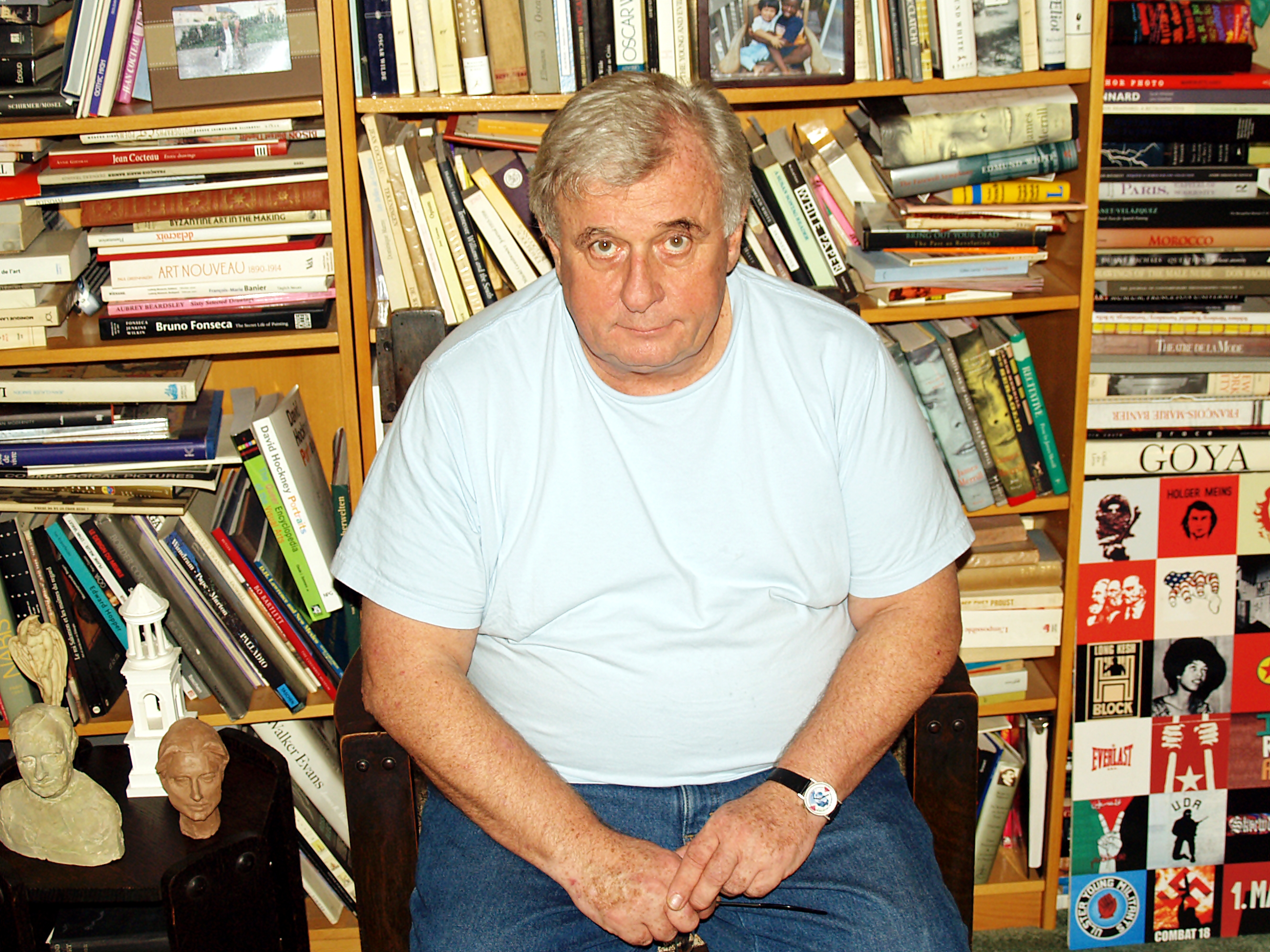 Edmund White by David Shankbone